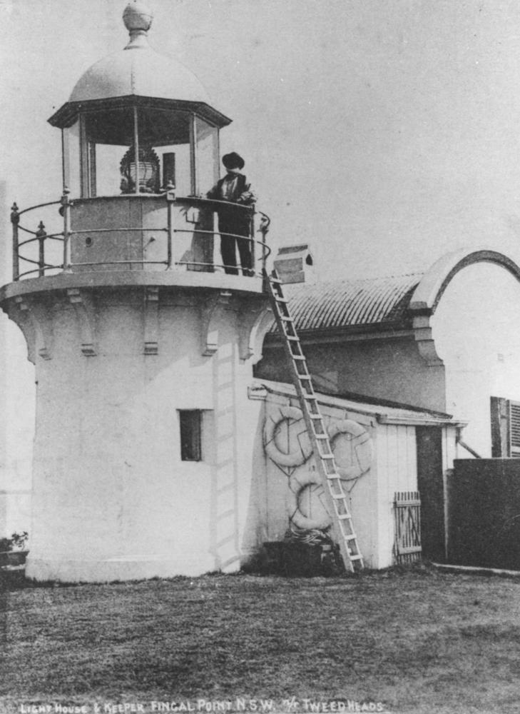 Lighthouse keeper on the observation platform of Fingal Head Lighthouse, New South Wales, ca. 1906. Script on postcard reads: Light House & Keeper, Fingal Point, N.S.W. n/r Tweed Heads.